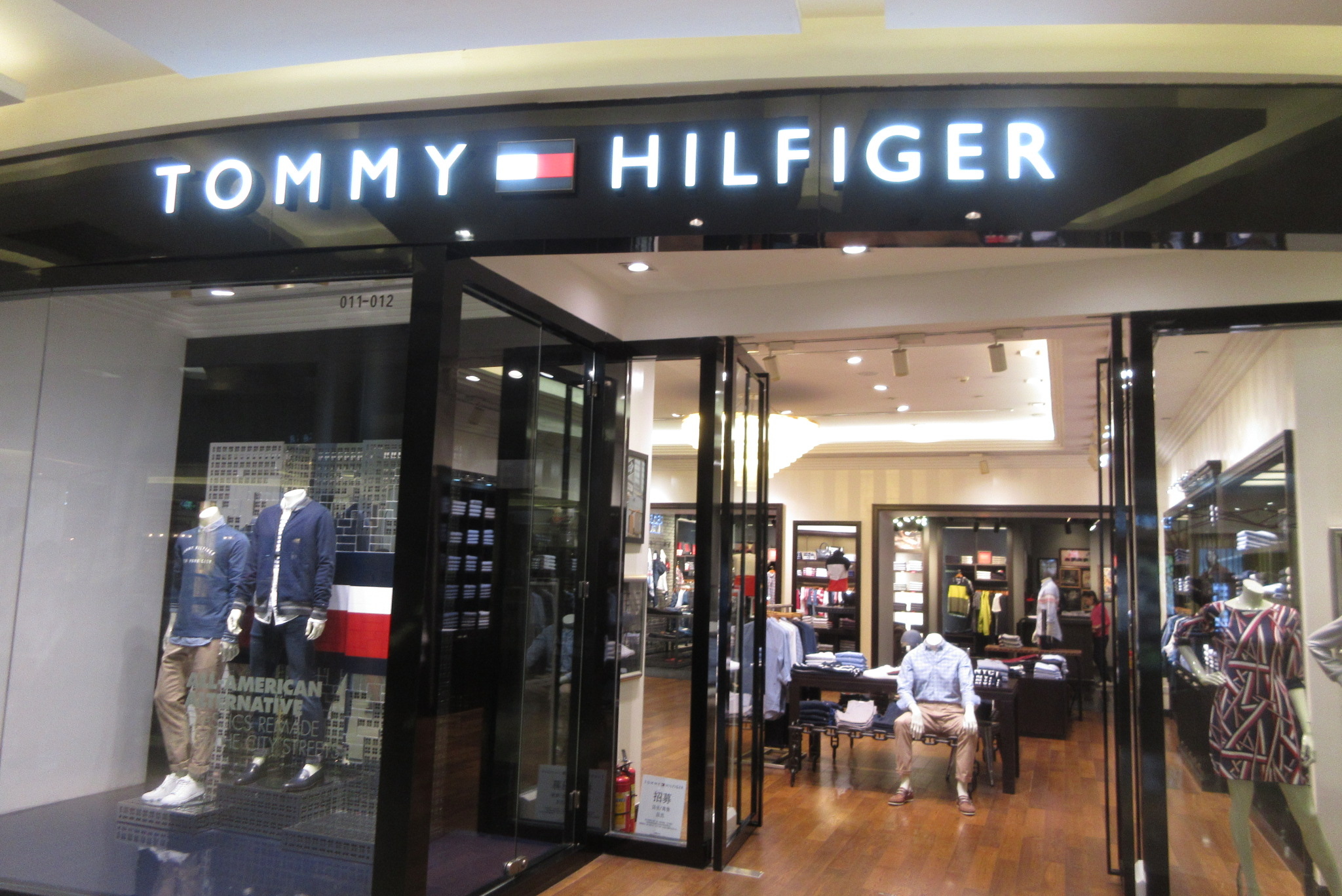 SZ 深圳 Shenzhen 羅湖 Luohu 金光華廣場 Kingglory Plaza mall shop clothig in Oct 2017